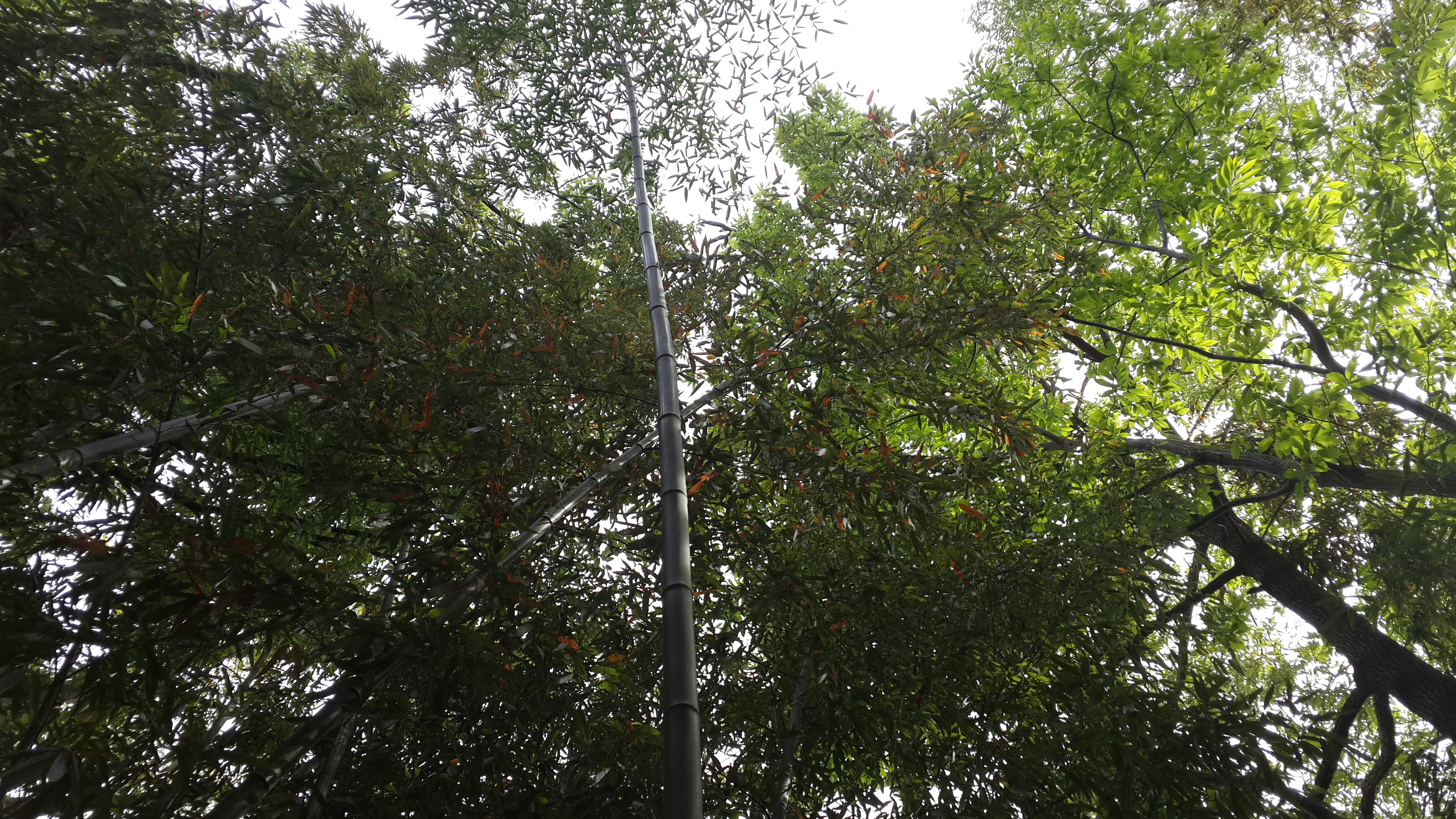 Juknokwon. Bamboo forests in Damyang, South Korea.